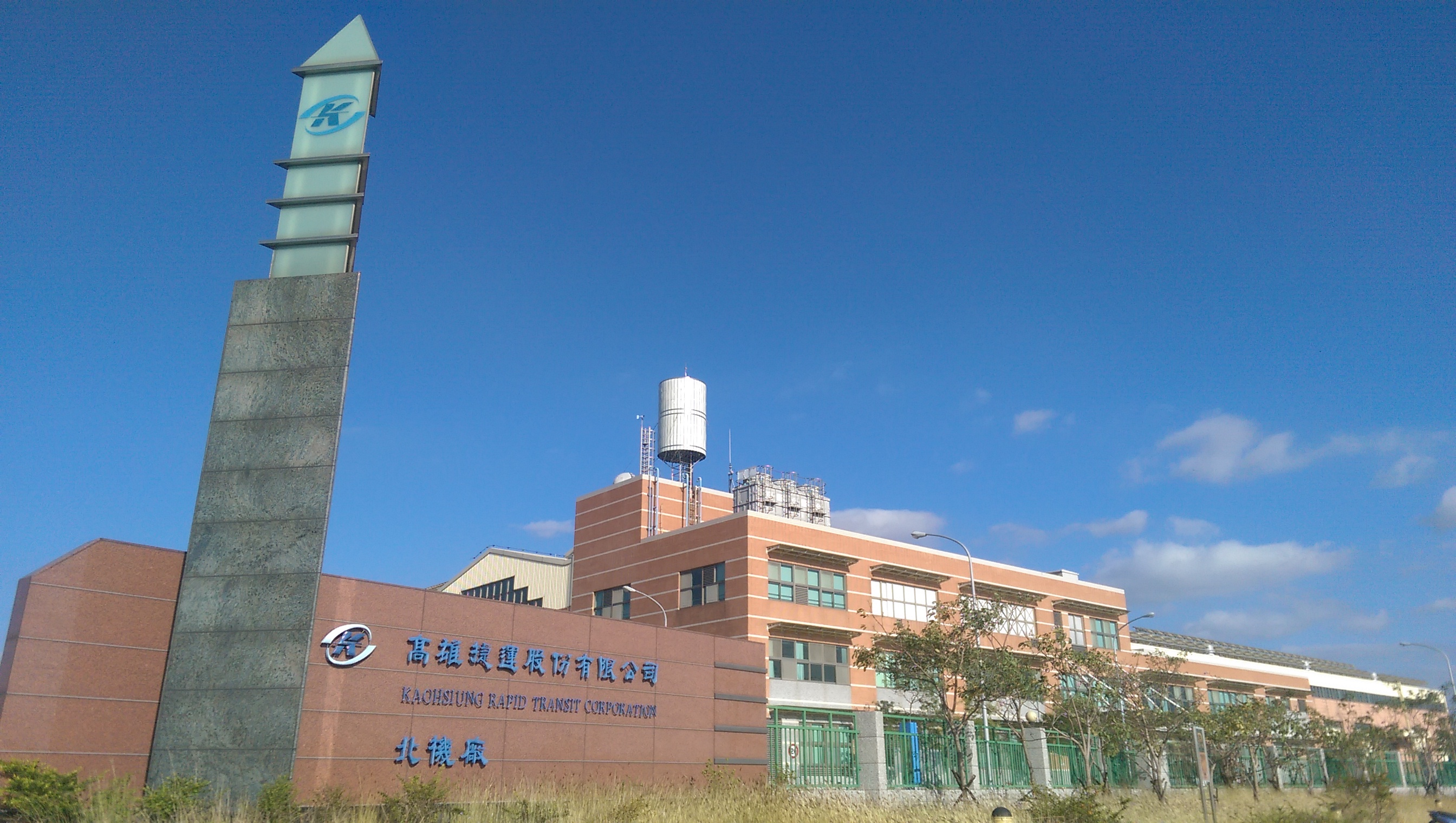 Kaohsiung MRT North Depot